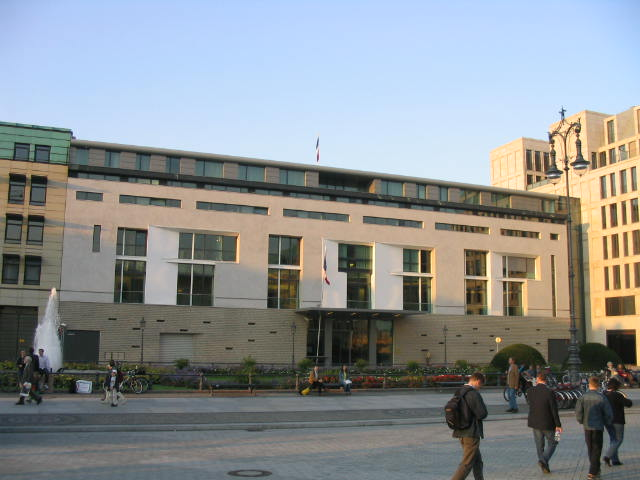 Description: French Embassy in Berlin, built by Christian de Portzamparc Source: self-made. I release it into the public domain. Gryffindor 16:11, 6 February 2006 (UTC)